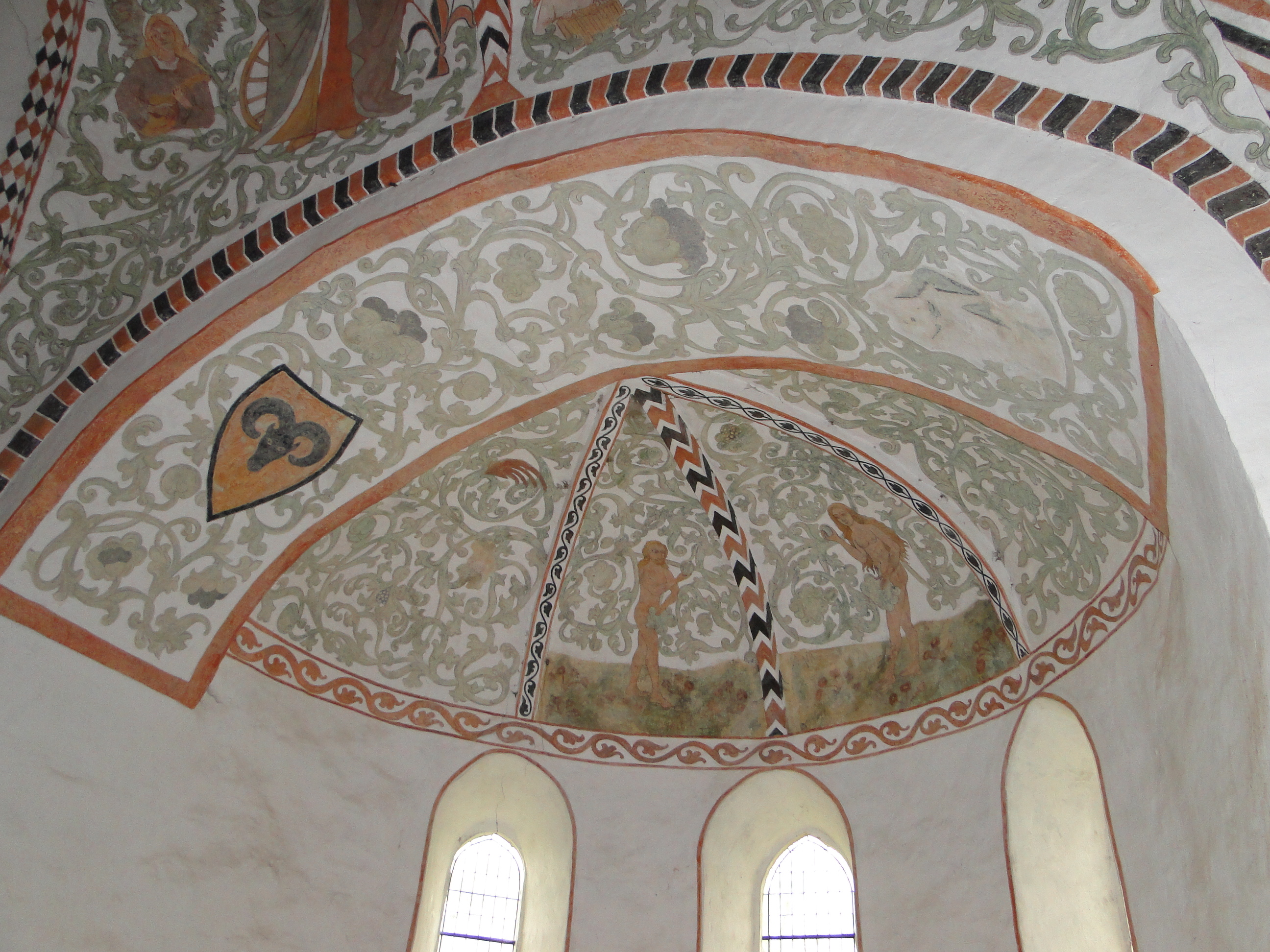 Church in Bellin, district Rostock, Mecklenburg-Vorpommern, Germany